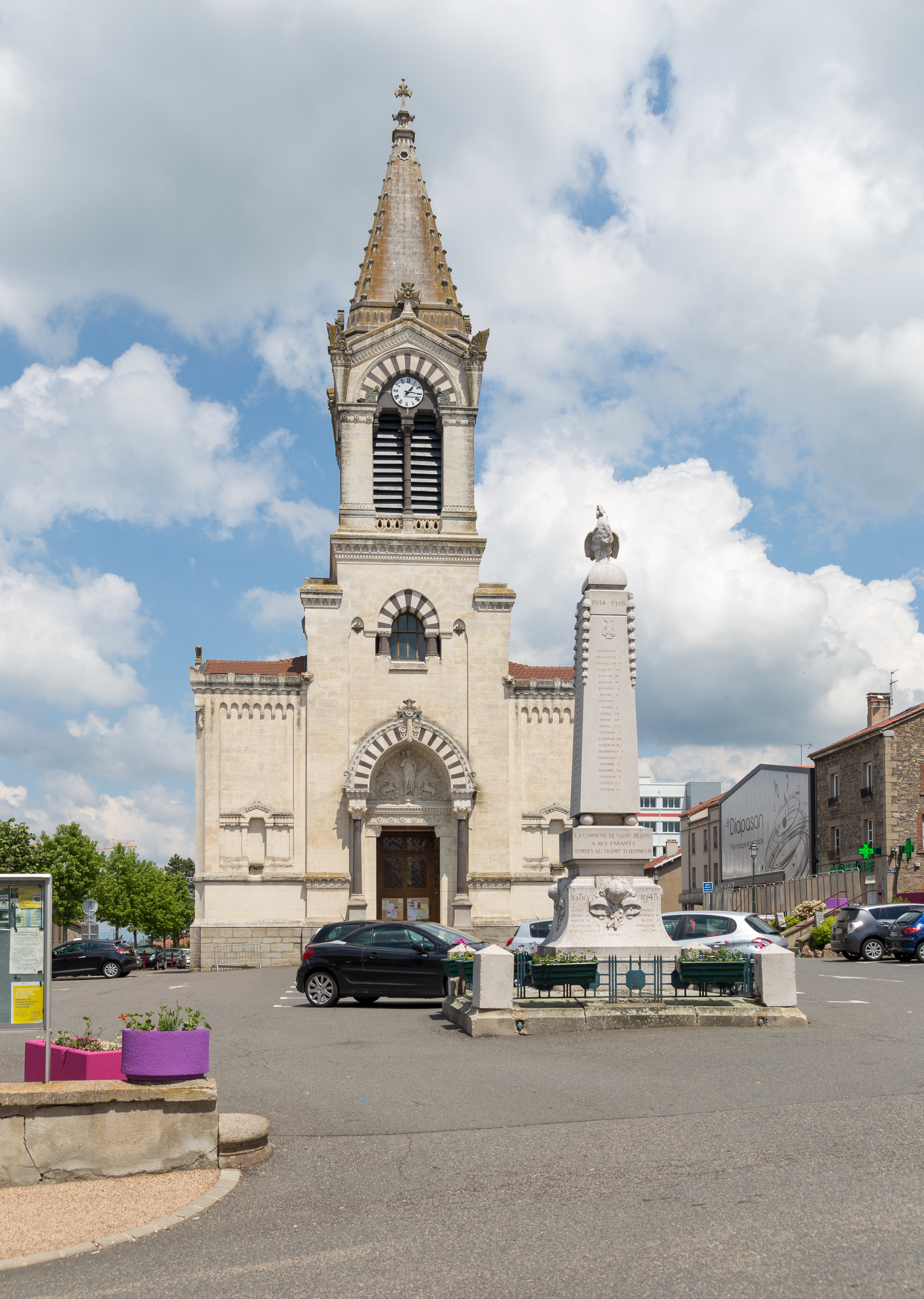 Place of the Saint-Joseph Church of Saint-Héand, Loire.